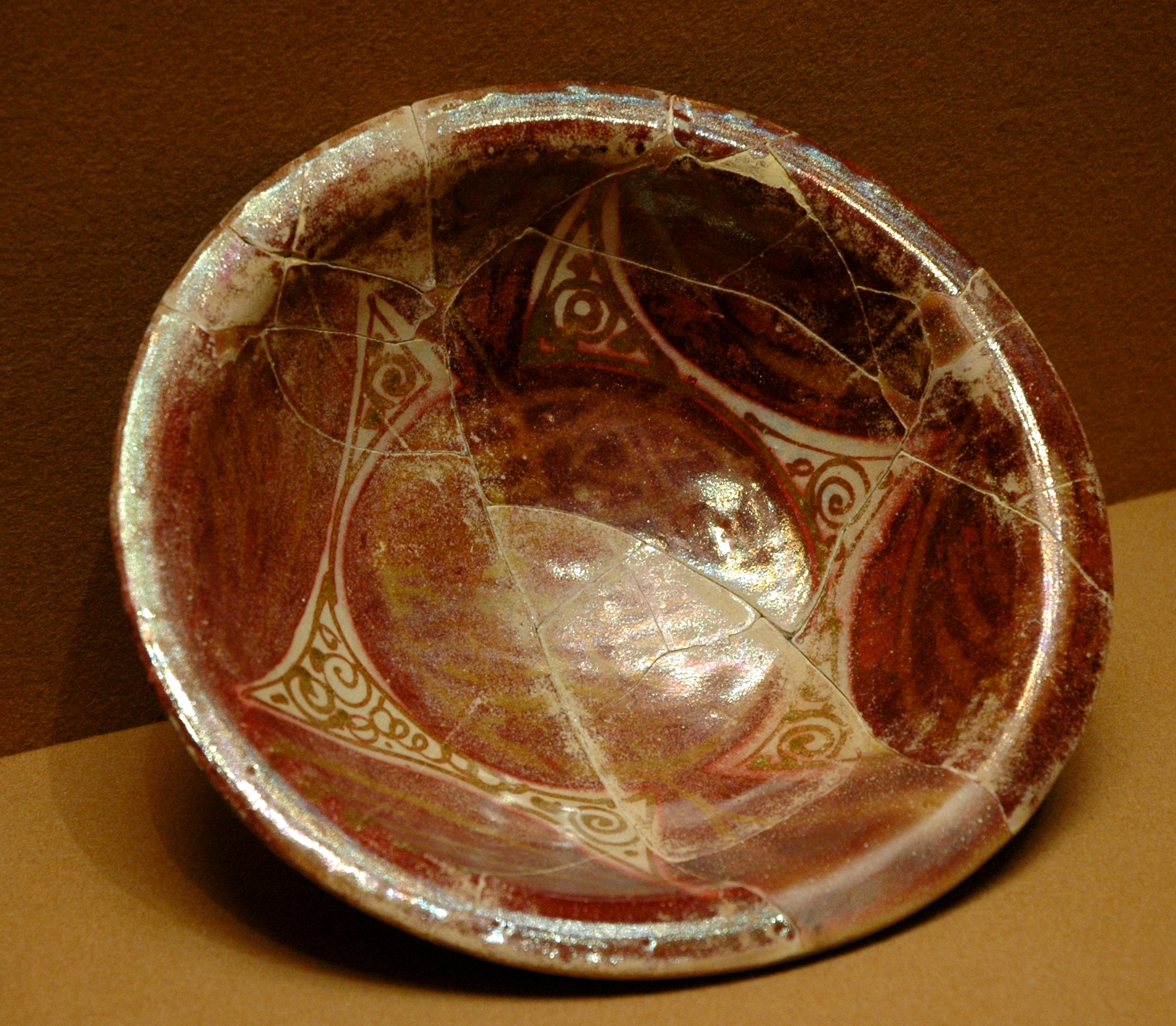 Cup.